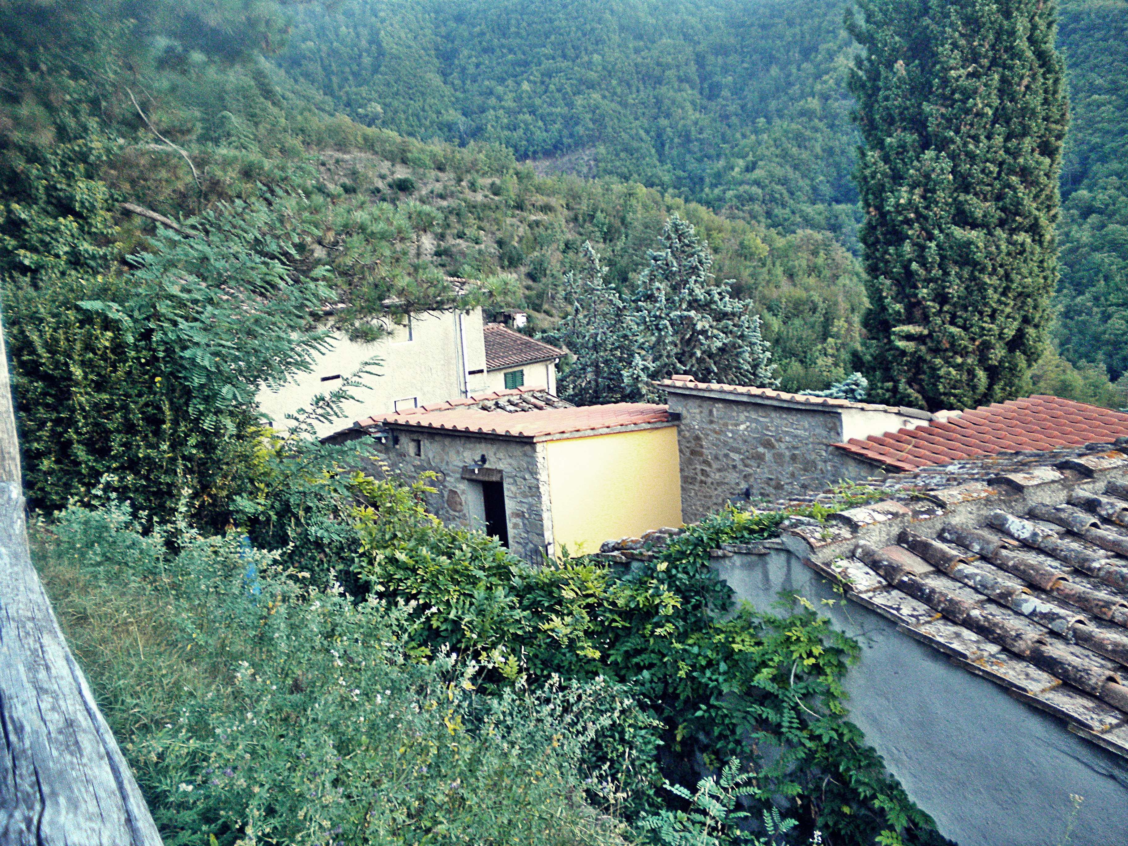 agritourism